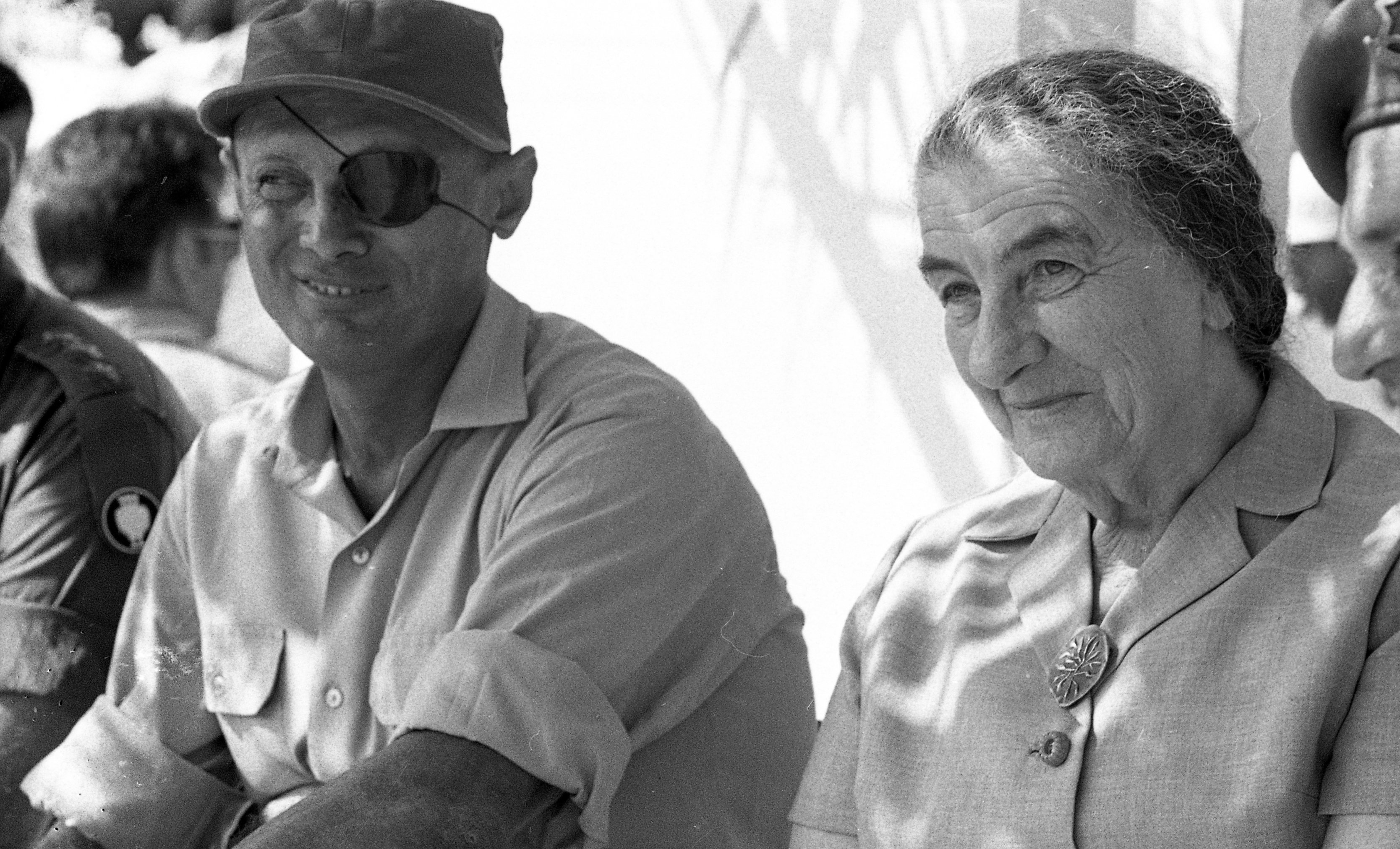 Graduation ceremony of IDF Junior Command Preparatory Boarding School include military parade in the presence of PM Golda Meir, Defense Minister Moshe Dayan and families.